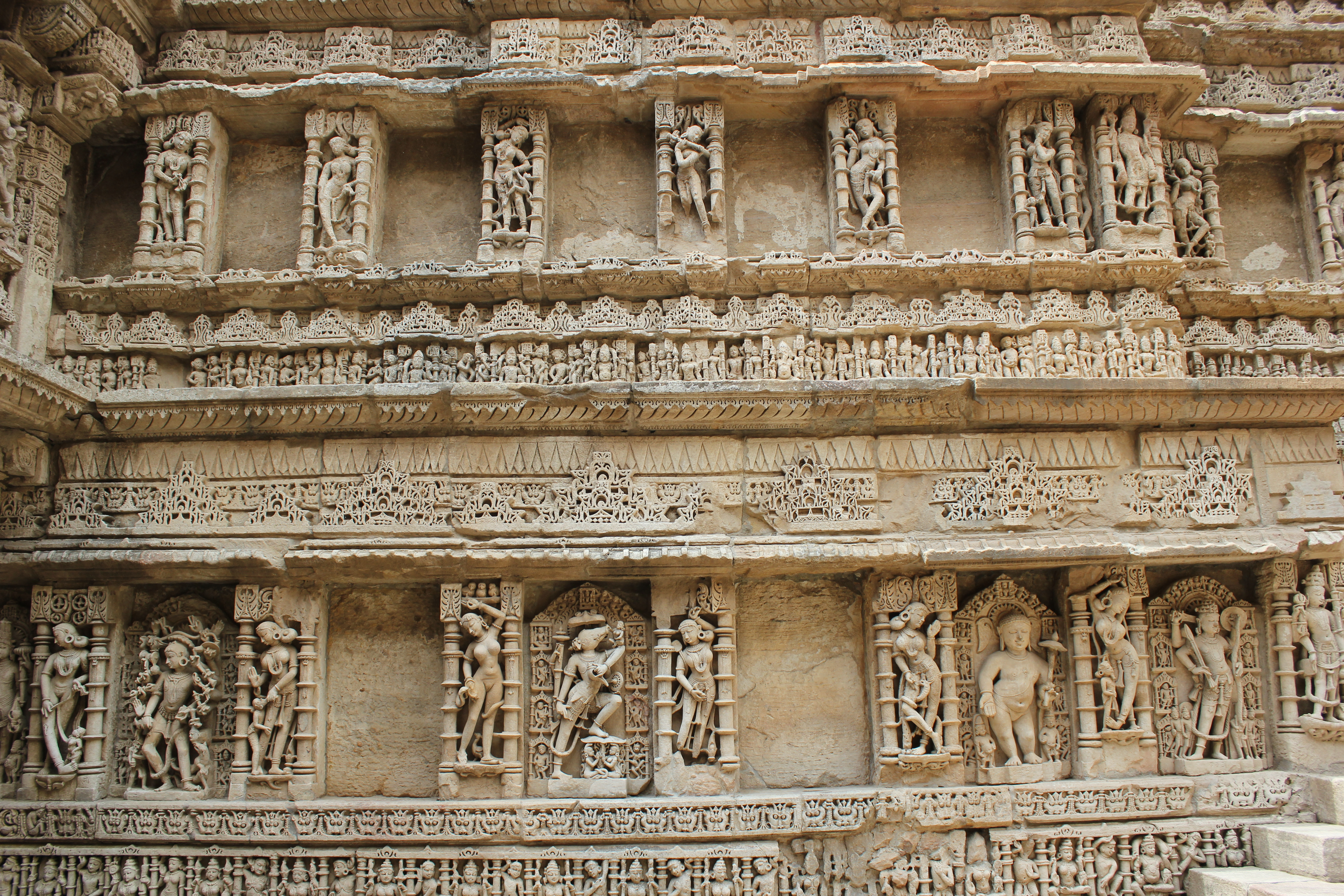 N-GJ-160